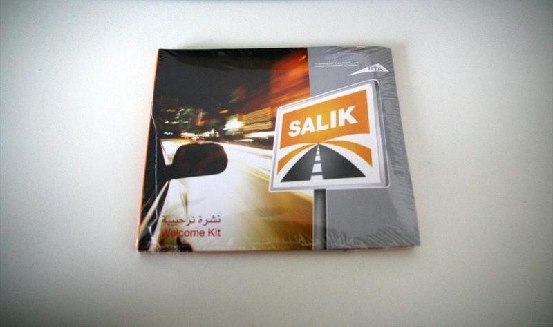 This is a photo of the Salik Welcome Kit. This Dh 100 package was required for anyone that wanted to use Sheikh Zayed Road (in Dubai, United Arab Emirates) between Al Barsha and Al Garhoud Bridge. Salik, a road toll, was implemented there on 1 July 2007.